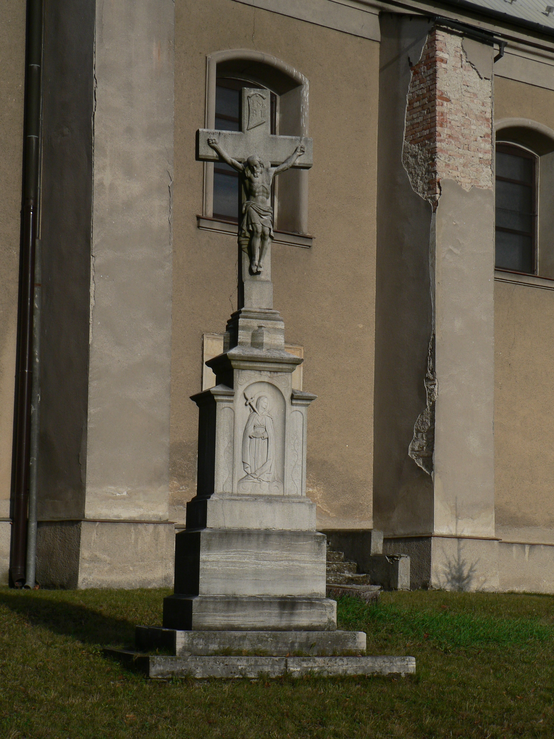 Ruda nad Moravou, Šumperk District, Czechia.